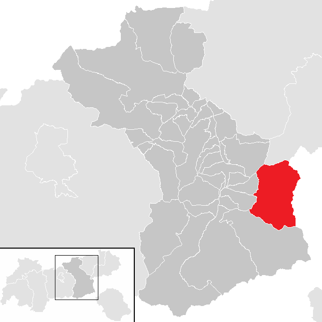 District Schwaz